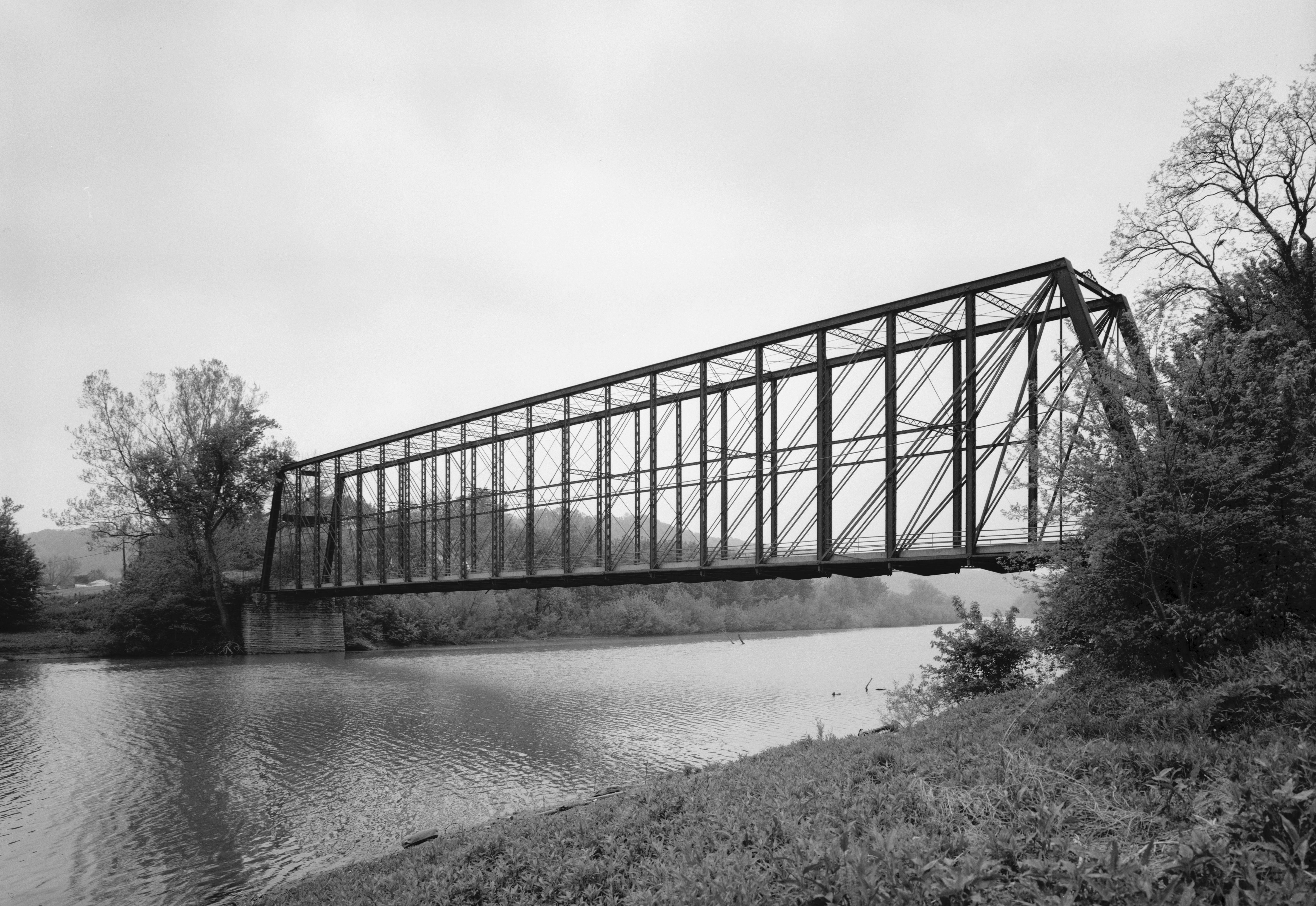 Laughery Creek Bridge, Spanning Laughery Creek, Aurora vicinity, Dearborn County, IN - View of south end.